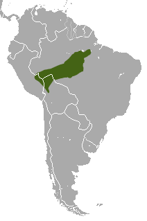 Amazonian Red-sided Opossum (Monodelphis glirina) range